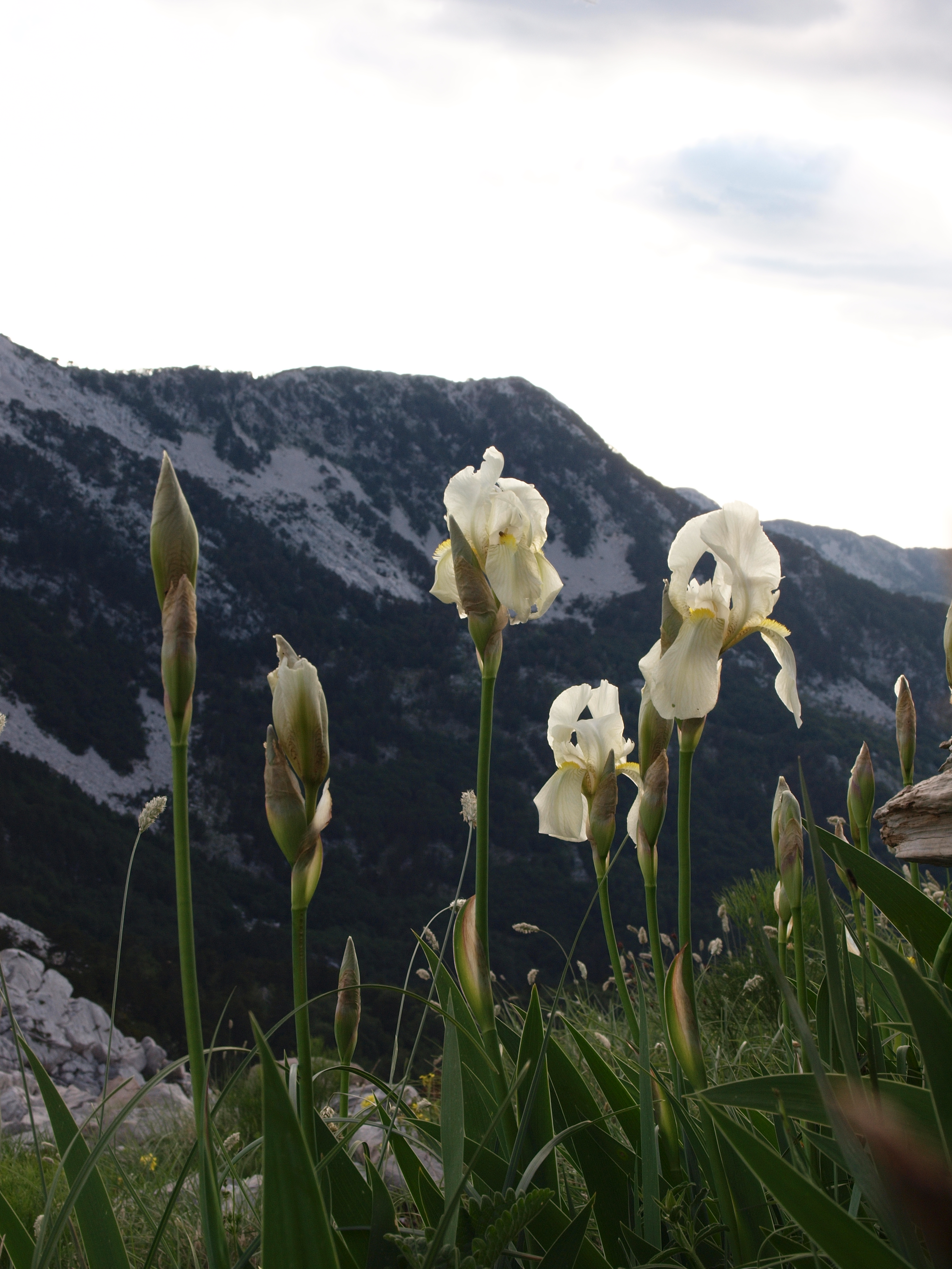 I.orjenii